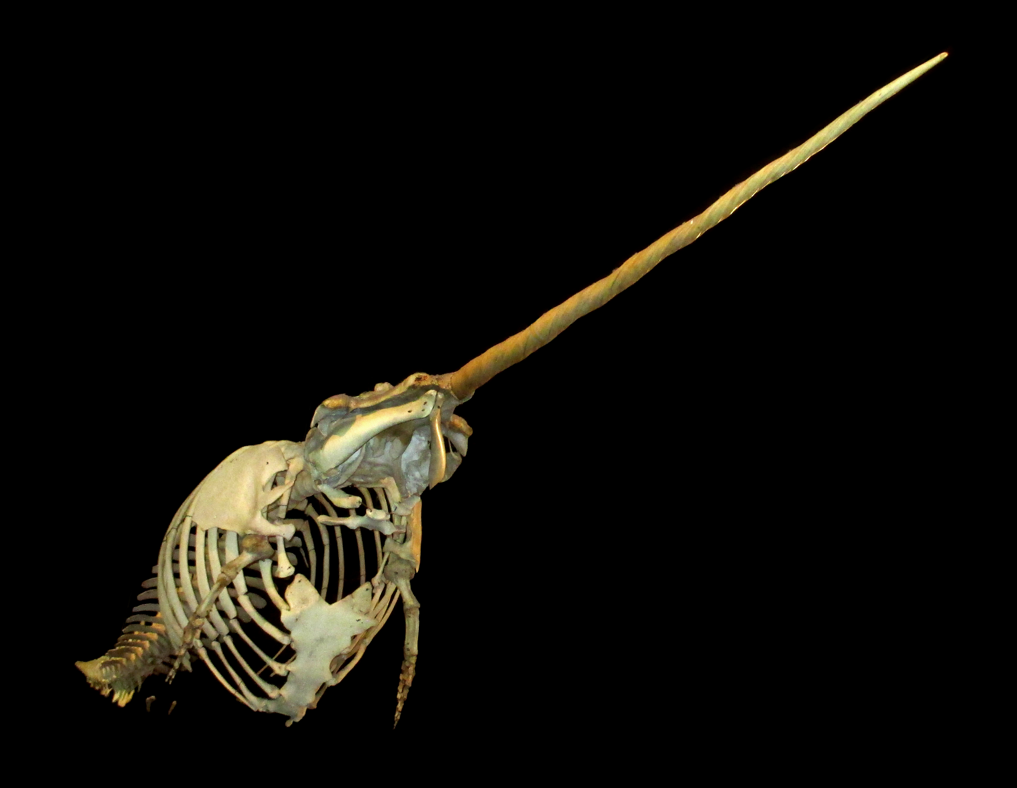 Skeleton of Narwhale (Monodon Monoceros) at Gothenburg Natural History Museum, Gothenburg, Västra Götaland County, Sweden.